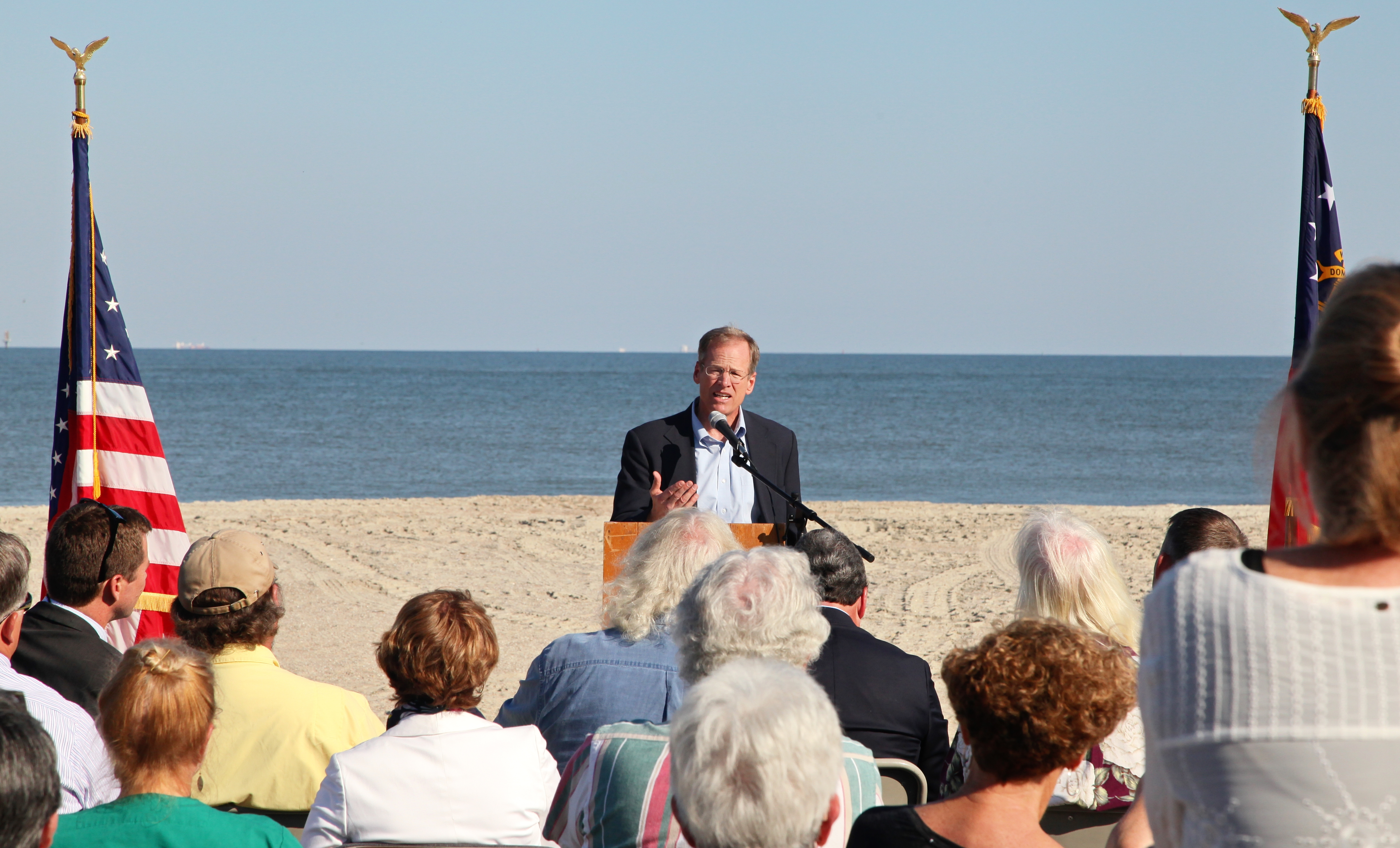 Chatham County, Georgia